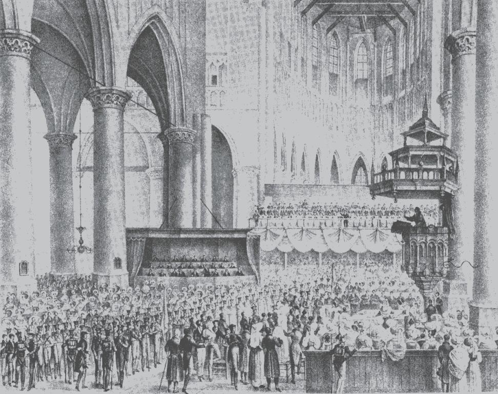 The welcome in de Leiden Pieterskerk of the Leiden Students who participated as volunteers in the battle against the Belgian rebels, September 23, 1831